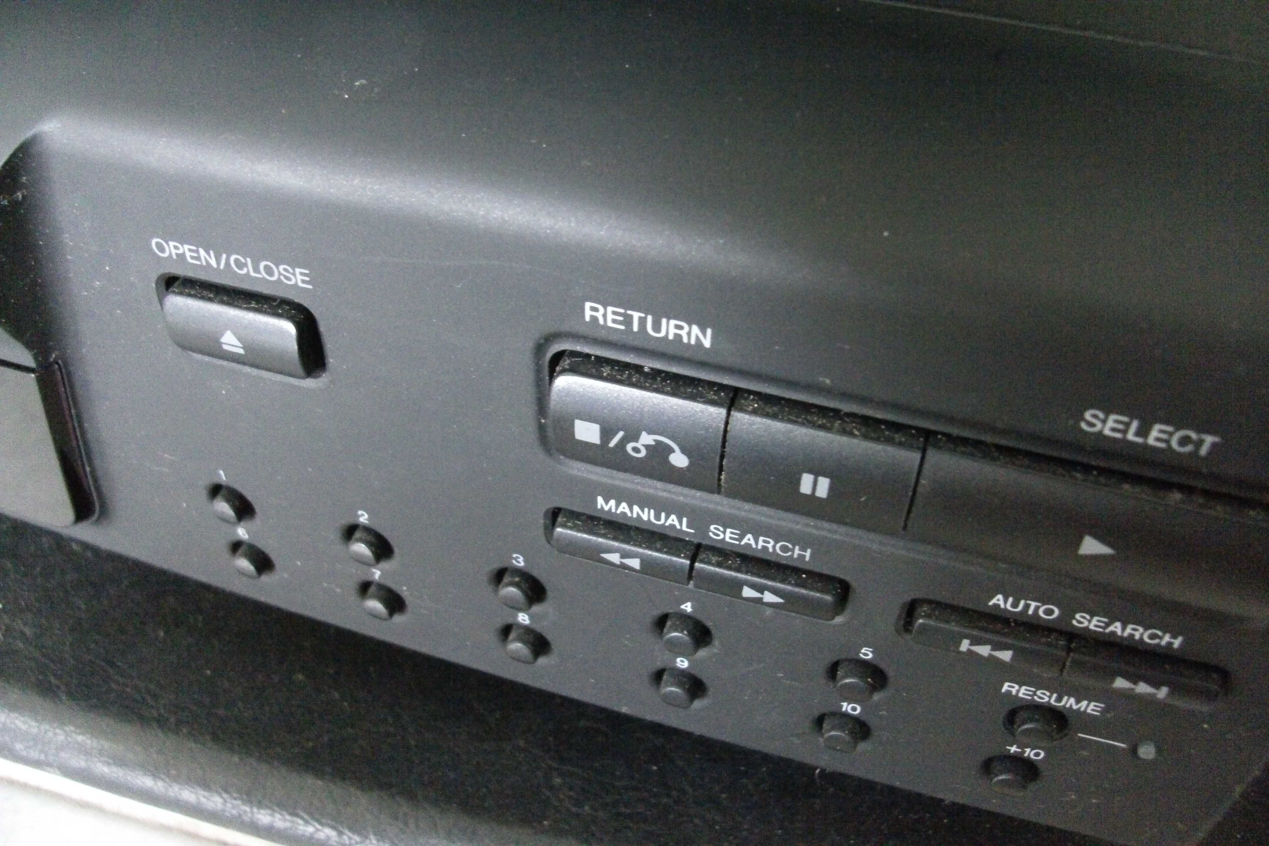 stop / return button featured on a vcd player